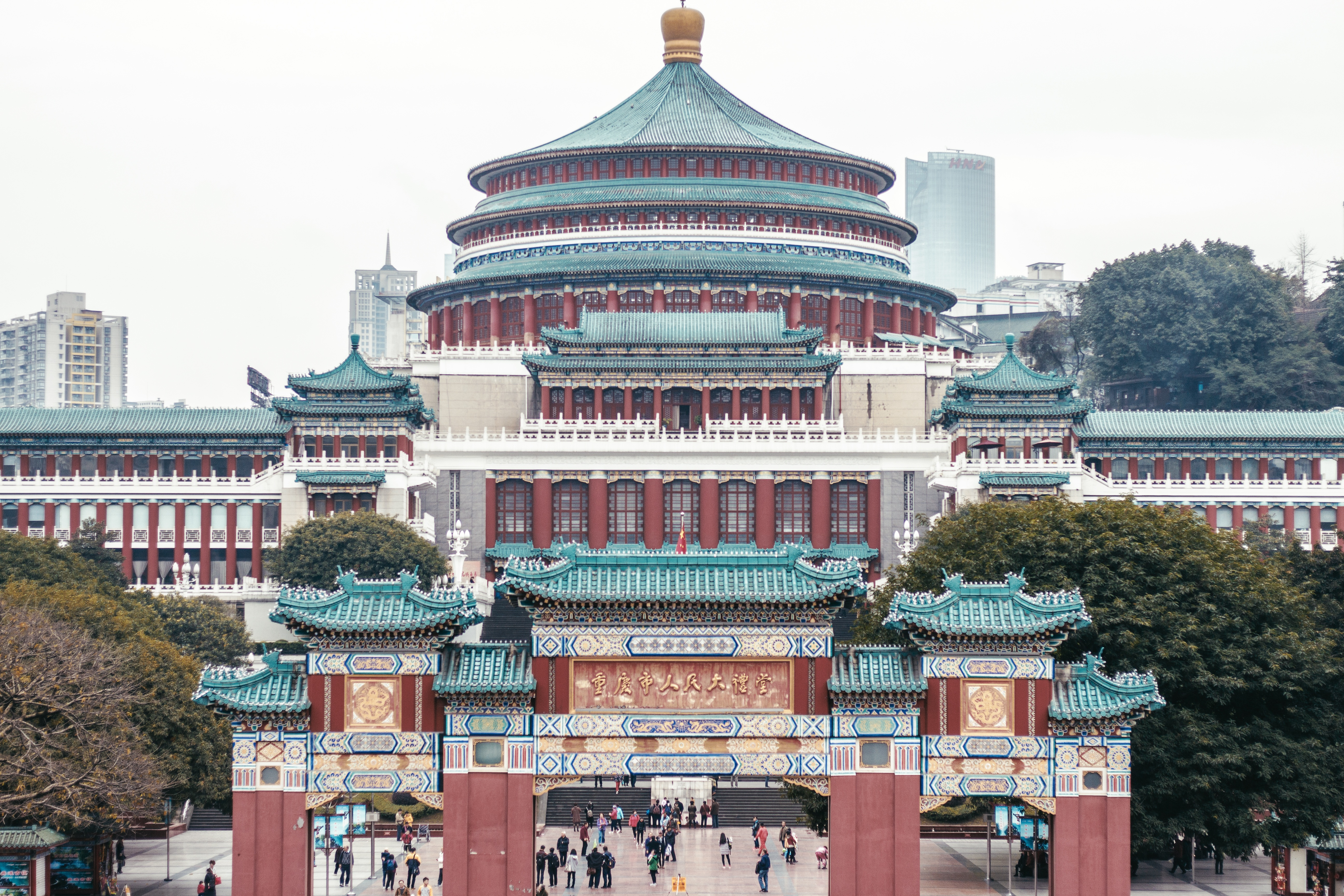 15 March 2017